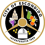 The official city seal of Escondido, California.